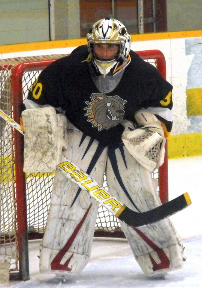 This photo was taken by Devan Mighton during the 2014-15 WECSSAA season.